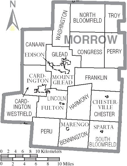 Map of Morrow County, Ohio, United States with township and municipal boundaries